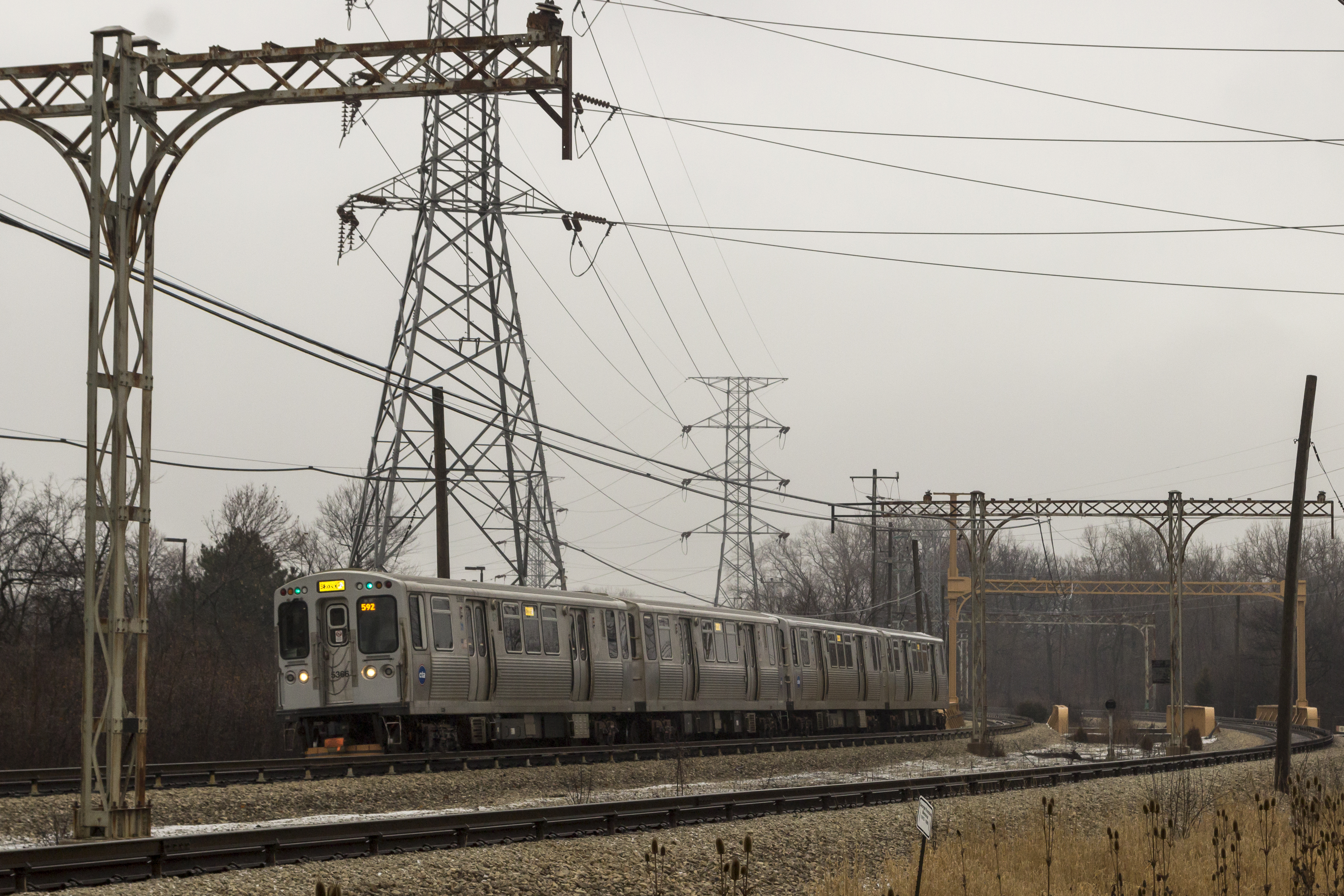 A rare four-car Yellow Line / Skokie Swift train of Bombardier-built 5000-series 'L' cars sweeps through Oakton Curve in Skokie. This superelevated curve was famous for decades as the point where North Shore Line interurbans could really "open up" on their runs north over the Skokie Valley Route. The North Shore Line-era catenary supports, still in place after CTA converted the Swift to third-rail operation in 2004, hark back to the era of high-speed interurbans. The four-car sets were being used on the Yellow Line to accommodate equipment in the front of the lead car that spreads an anti-icing solution on the third rail. This, in addition to sleet scrapers ahead of and behind the third-rail shoes, keep ice, snow and sleet from sticking to the conductive rail. Two-car trains have been the norm on the Swift for many years, as the point-to-point shuttle nature of the service never warranted more. The terminal station at Dempster cannot handle four-car trains at its platforms, though when Oakton station was built, (or rather, rebuilt) it was designed to handle trains of at least that length in anticipation of possible future extension of the line to the north.